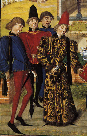 Foliant de Ionnal presents his text to Rudolph of Norway, detail of frontispiece to L'Instruction d'un jeune prince, an advice book on good conduct by Guillebert de Lannoy, c. 1468-70.